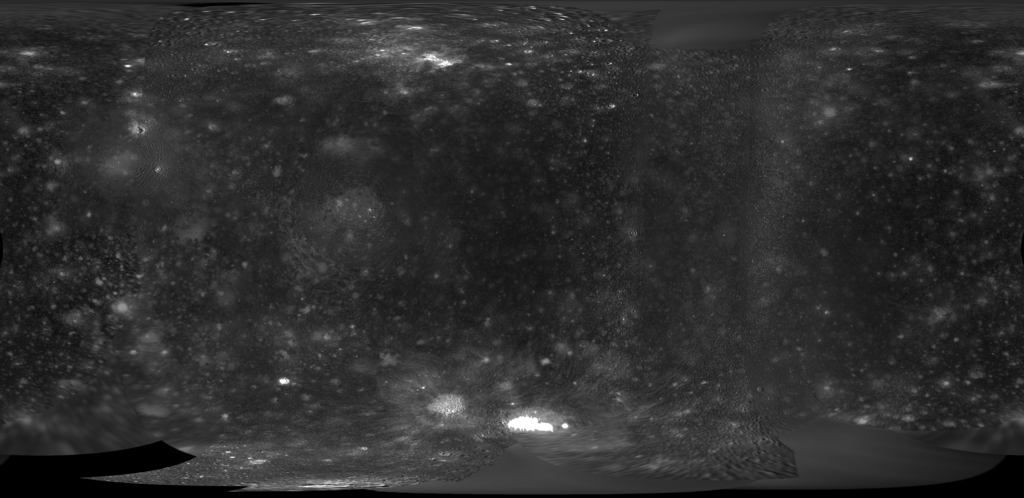 Map of Callisto, cropped and rescaled for use in templates, especially location maps. Based on Galileo and Voyager data.